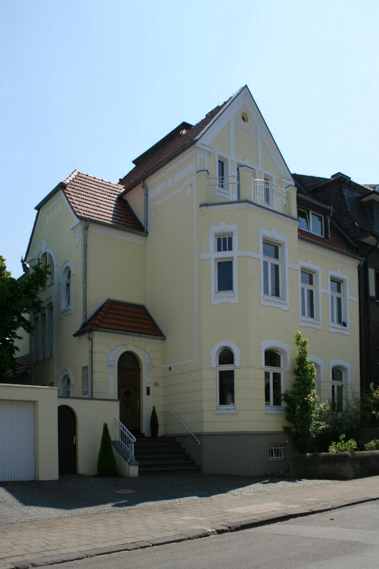 Cultural heritage monument No. Sch 022 in Mönchengladbach